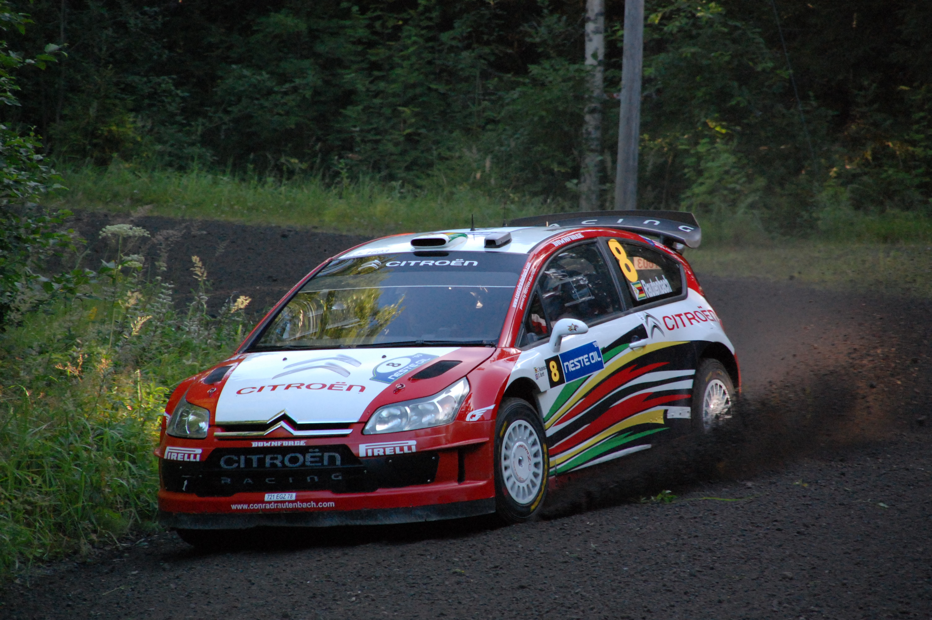 Conrad Rautenbach - 2009 Rally Finland. More pictures on my website